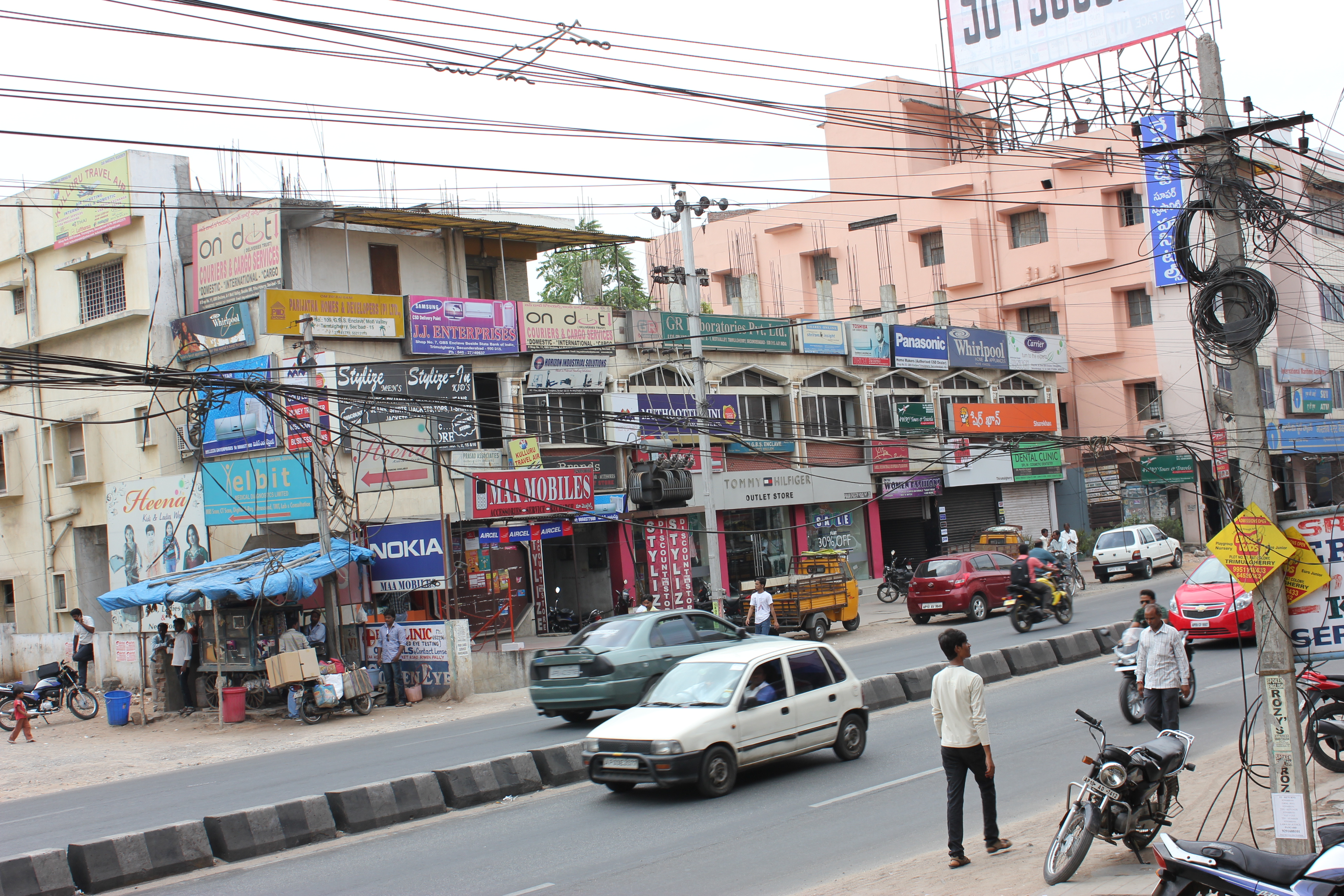 Tirumalgiri main road on a busy day.